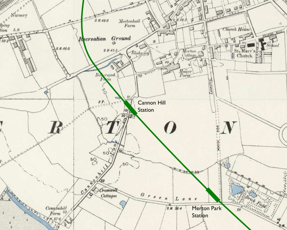 Proposed location of Wimbledon and Sutton Railway's unbuilt Cannon Hill station and route of line superimposed on an Ordnance Survey Map.